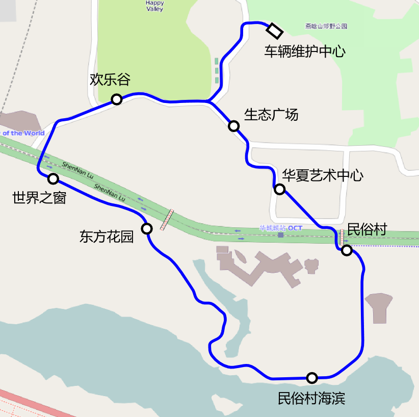 Geographically accurate map of the "Happy Line" in OCT, Shenzhen. Background map taken from